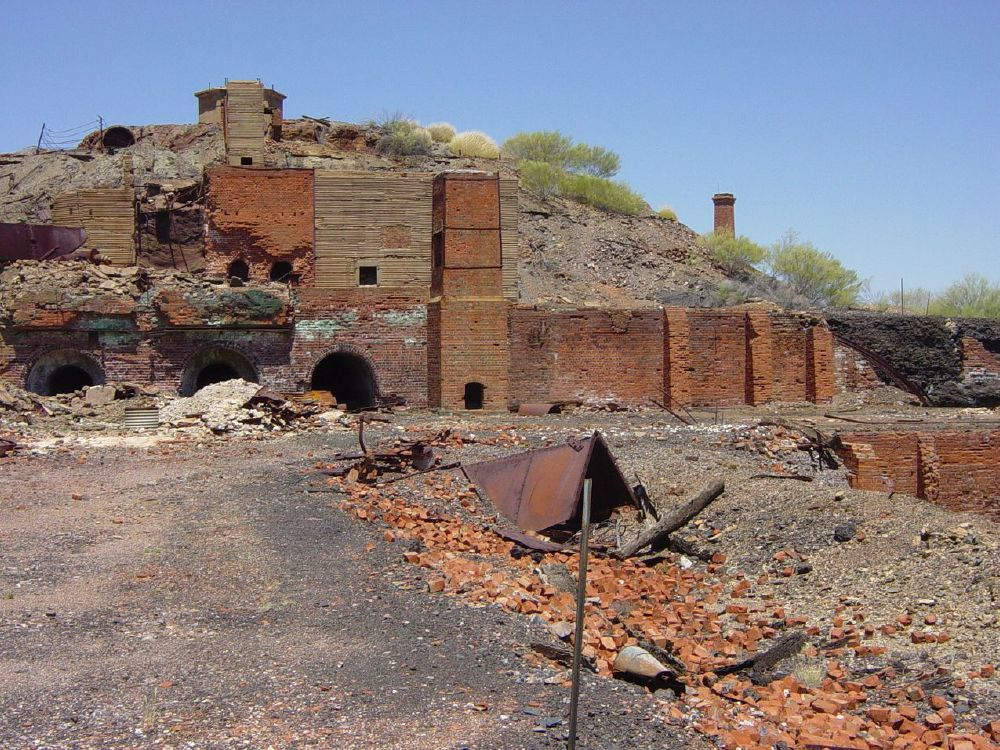 Mount Elliott smelter complex (Ivanhoe Cloncurry Mines, 2008)